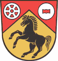 Coat of arms of Crawinkel